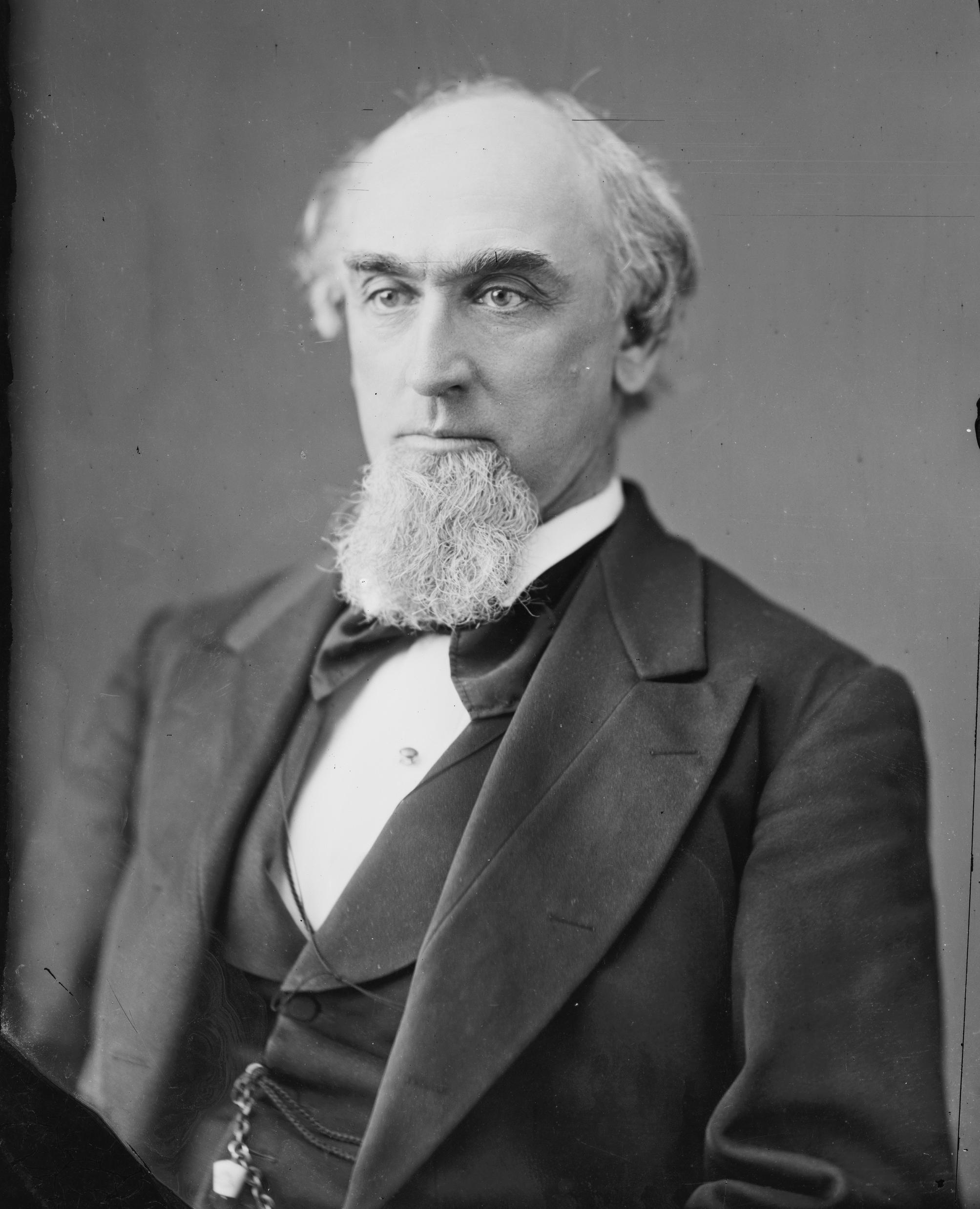 William Lawrence (Ohio). Library of Congress description: "Lawrence, Hon. Wm of Ohio. Col of 84th Ohio Inf U.S.A.".